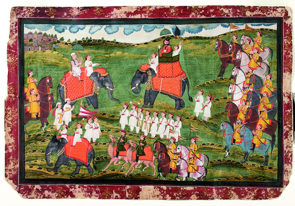 Captain James Tod mounted on an elephant (Opaque watercolor on paper). Painting dated October 1882, showing Tod seated on an elephant. Original inscription: Kaptan Jems Tad Sahab (master), is riding from Udaipur to the Dabok Bungalow. Guru Gyanchandra rides also.